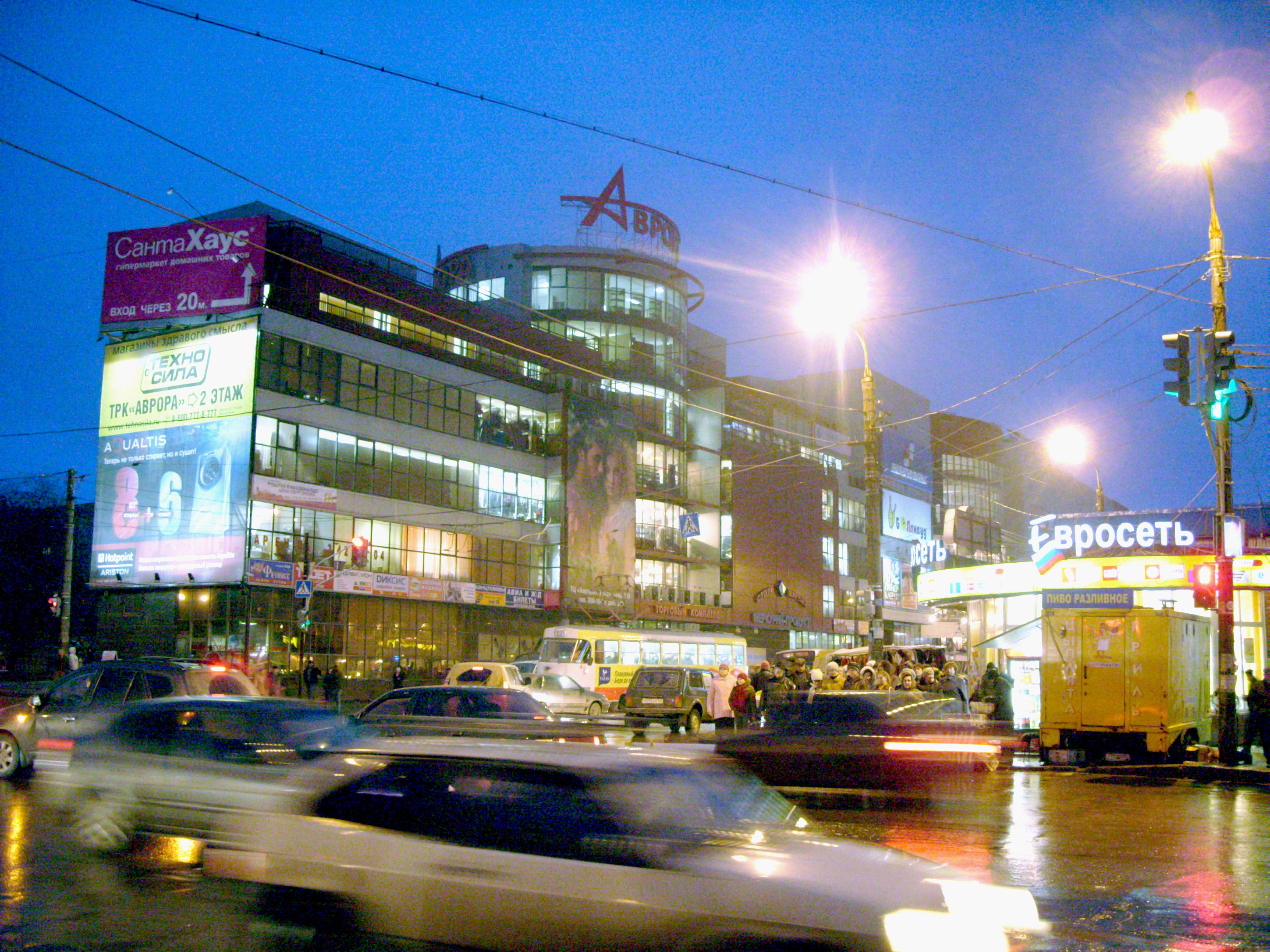 Avrora street in Samara, moll "Avrora"